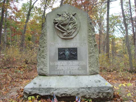 18th Pennsylvania Calvary Monument, Bushman Hill, Gettysburg Battlefield.